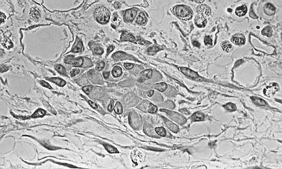 Light micrograph of osteoprogenitor cells forming a nidus.